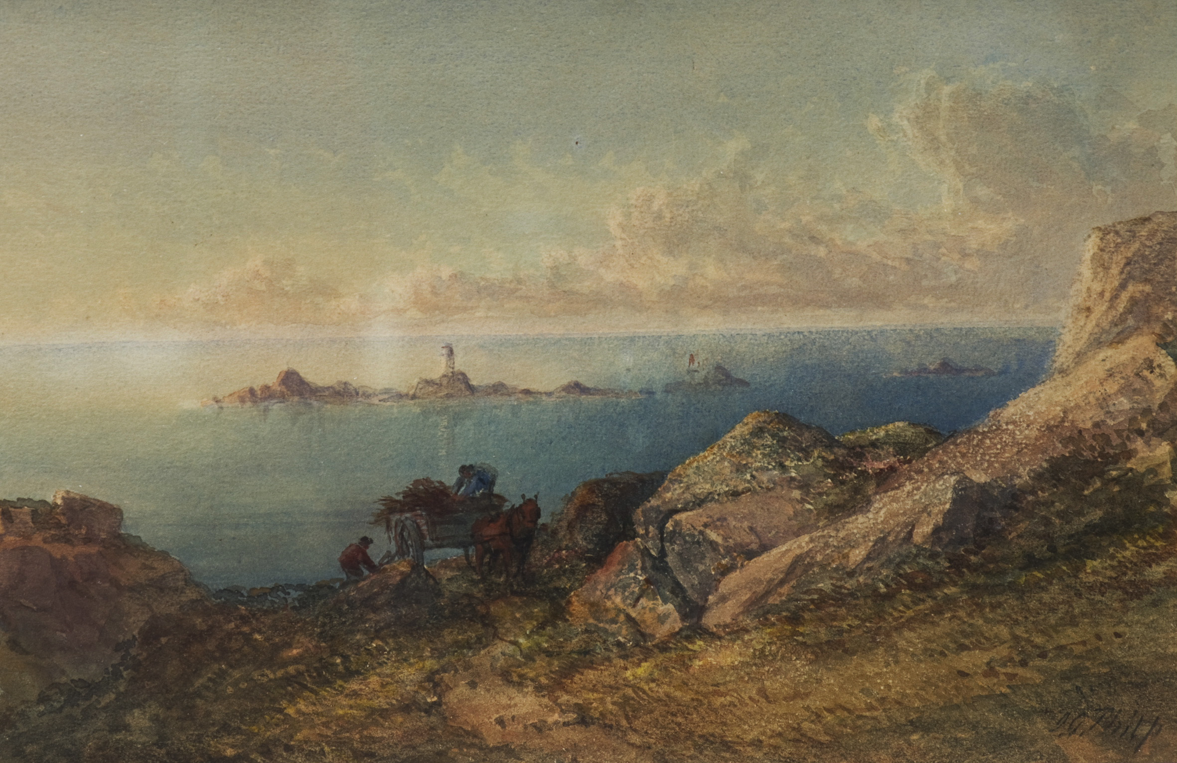 Kelp Gatherers, watercolor